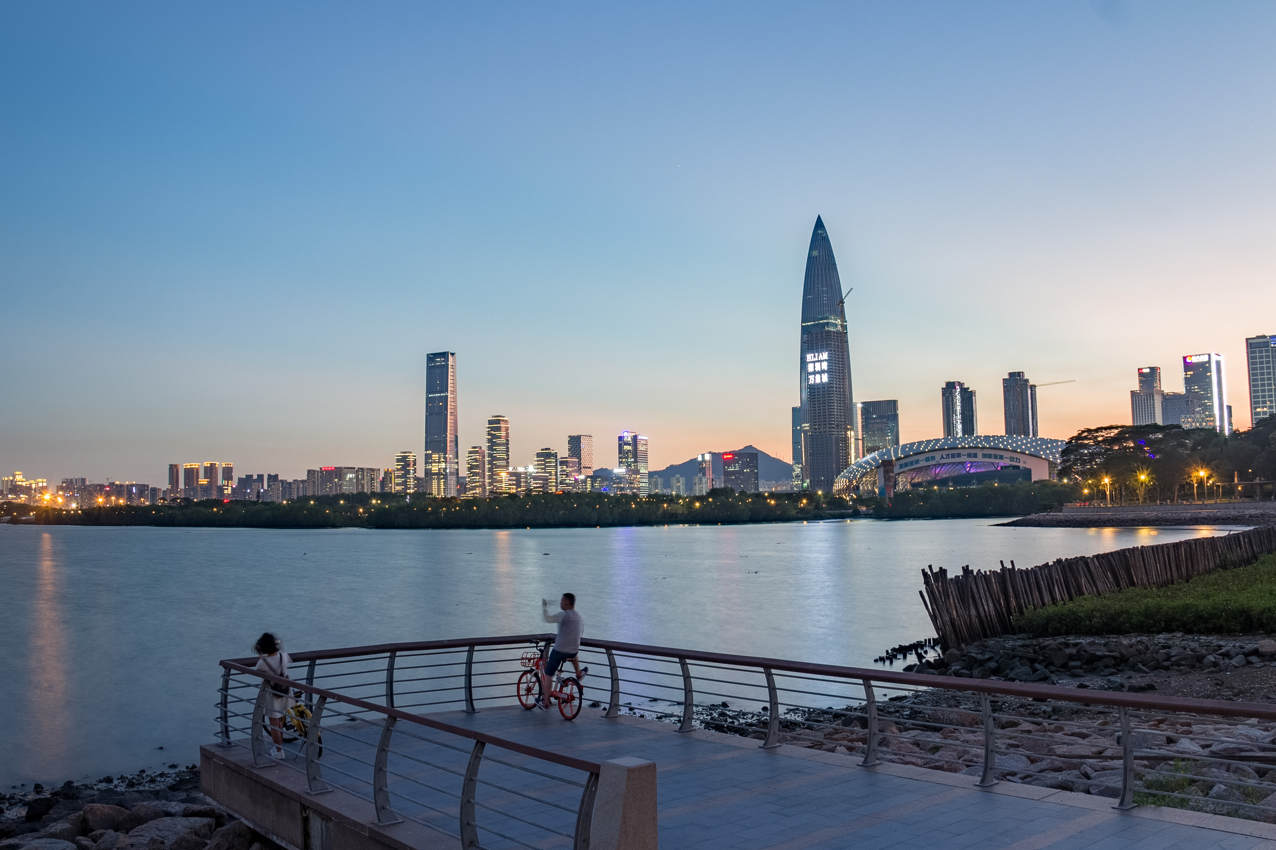 China Resources Headquarters Nanshan Shenzhen China